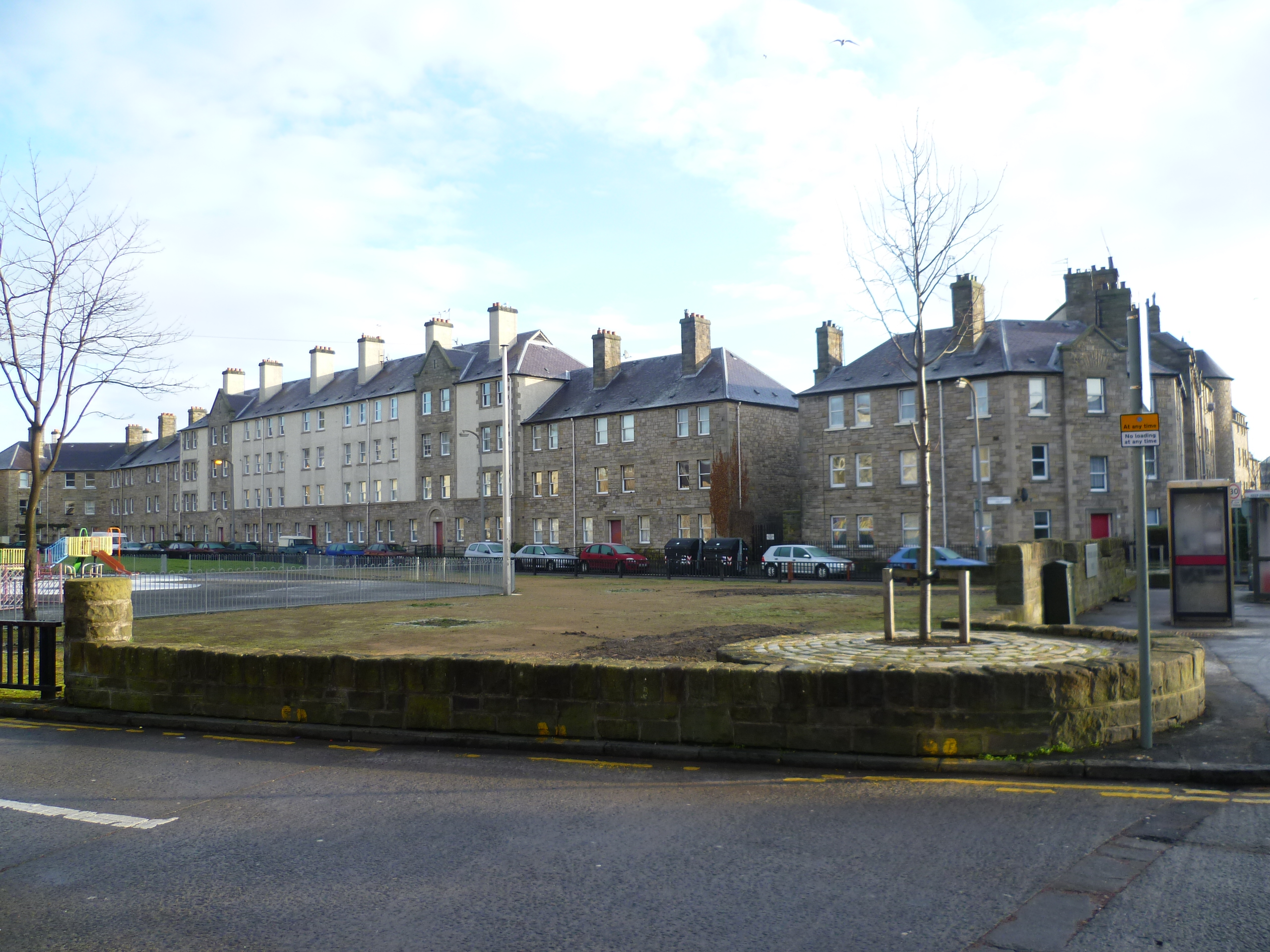 Built in 1794 during the French Revolutionary Wars, Piershill Barracks stood just east of Jock's Lodge on the Edinburgh-Portobello Road. Early Victorian maps show it standing in isolation in a surrounding landscape of farmland. It was the largest of Edinburgh's barracks before the building of Redford at Colinton shortly before the Great War. When demolished in 1938, stone from its buildings was re-used for the council houses that now occupy the site. The structure in the foreground shows a vestige of the north-west corner tower of the front wall of the barracks.